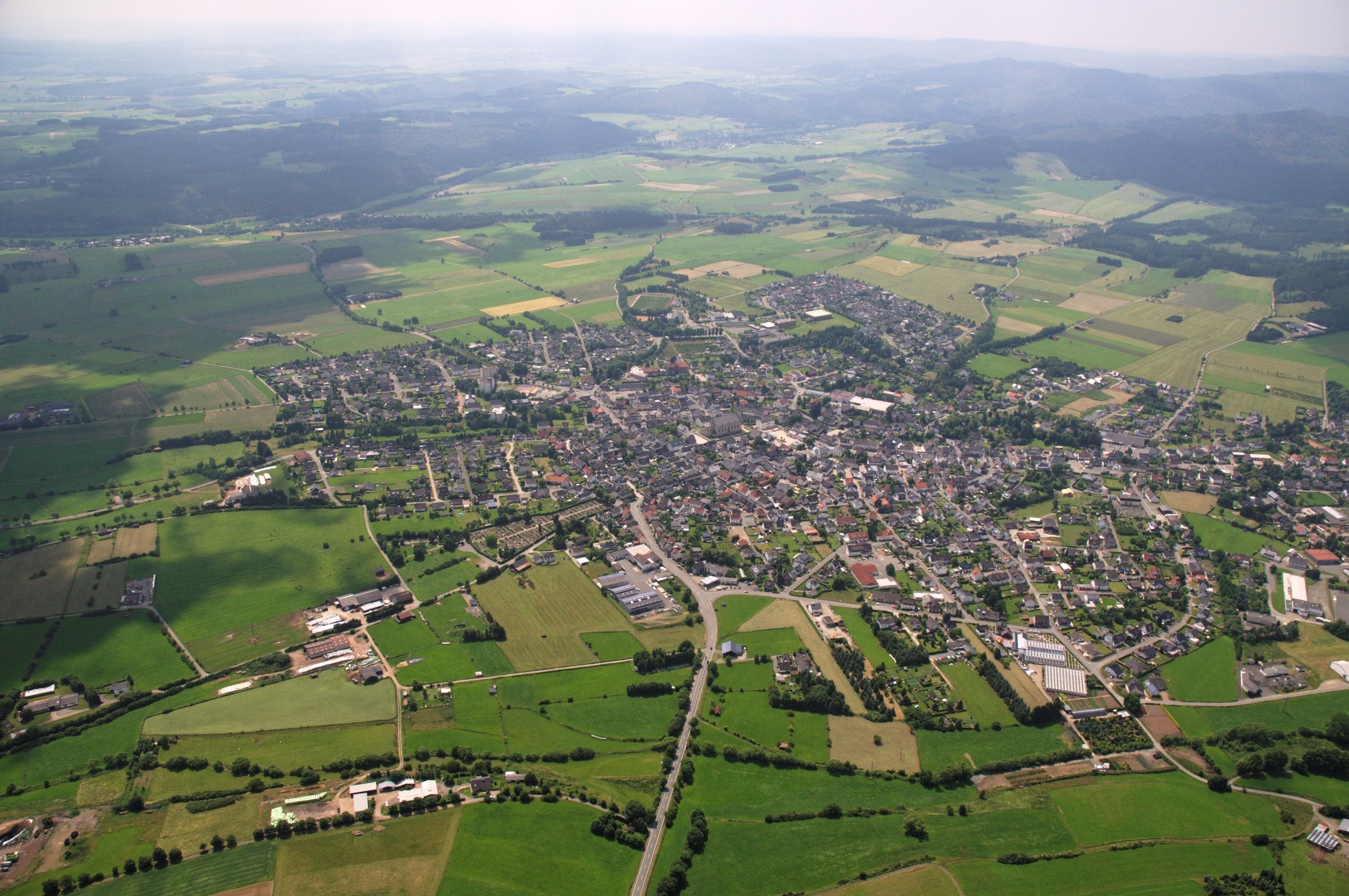 Fotoflug Sauerland-Ost, Medebach The making of this document was supported by the Community-Budget of Wikimedia Germany.